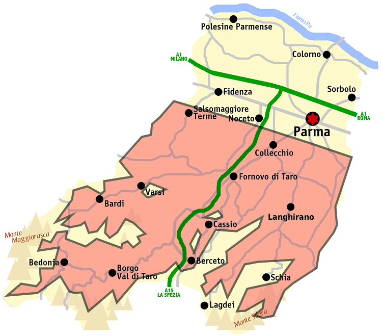 Prosciutto di Parma allowed production zone. It has to be within the south side of Province of Parma below Emilia state highway (SS 9), at least 5 km away from it and below 900 meters above mean sea level.